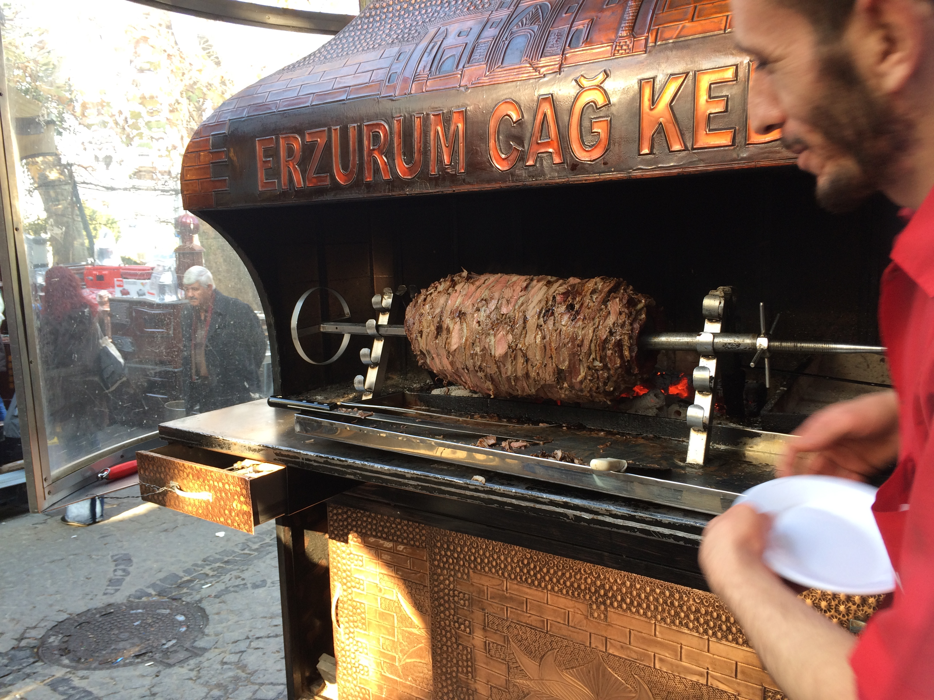 Cağ kebabı "Flavours of the Old City" tour by Istanbul on Food